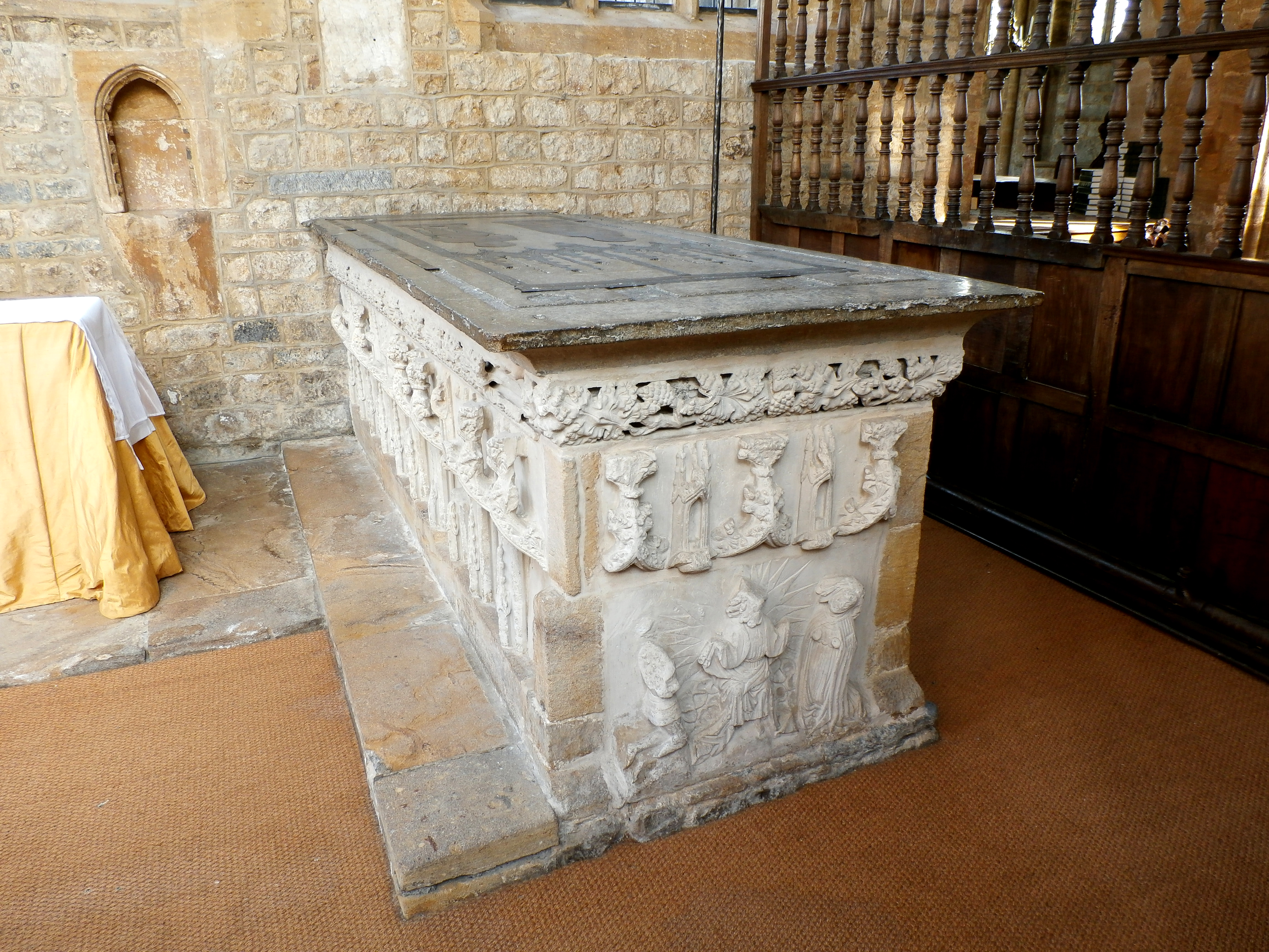 Chest tomb of William Wadham (d.1452) of Merryfield, Ilton, Somerset, Sheriff of Devon in 1442. Wadham Chapel (north transept), St Mary's Church, Ilminster, Somerset. (Rogers, William Henry Hamilton, Memorials of the West, Historical and Descriptive, Collected on the Borderland of Somerset, Dorset and Devon, Exeter, 1888, pp.147-173, The Founder and Foundress of Wadham)